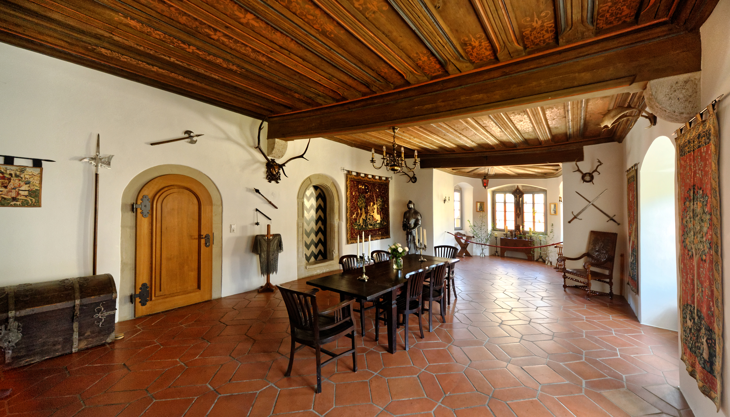 The Geyer-Castle in Creglingen Reinsbronn.